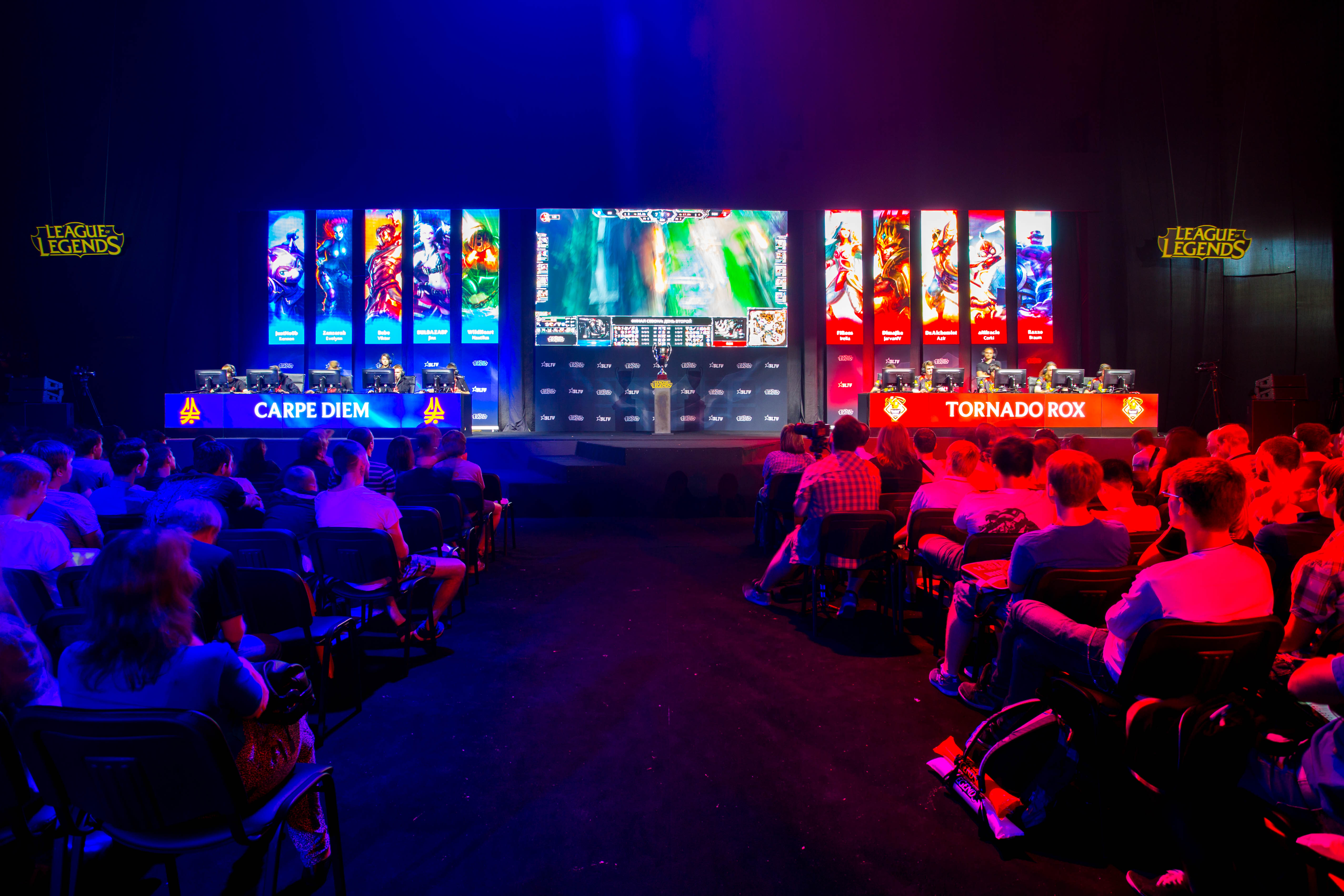 SLTV StarSeries Summer Split 2015, 3rd Place Match